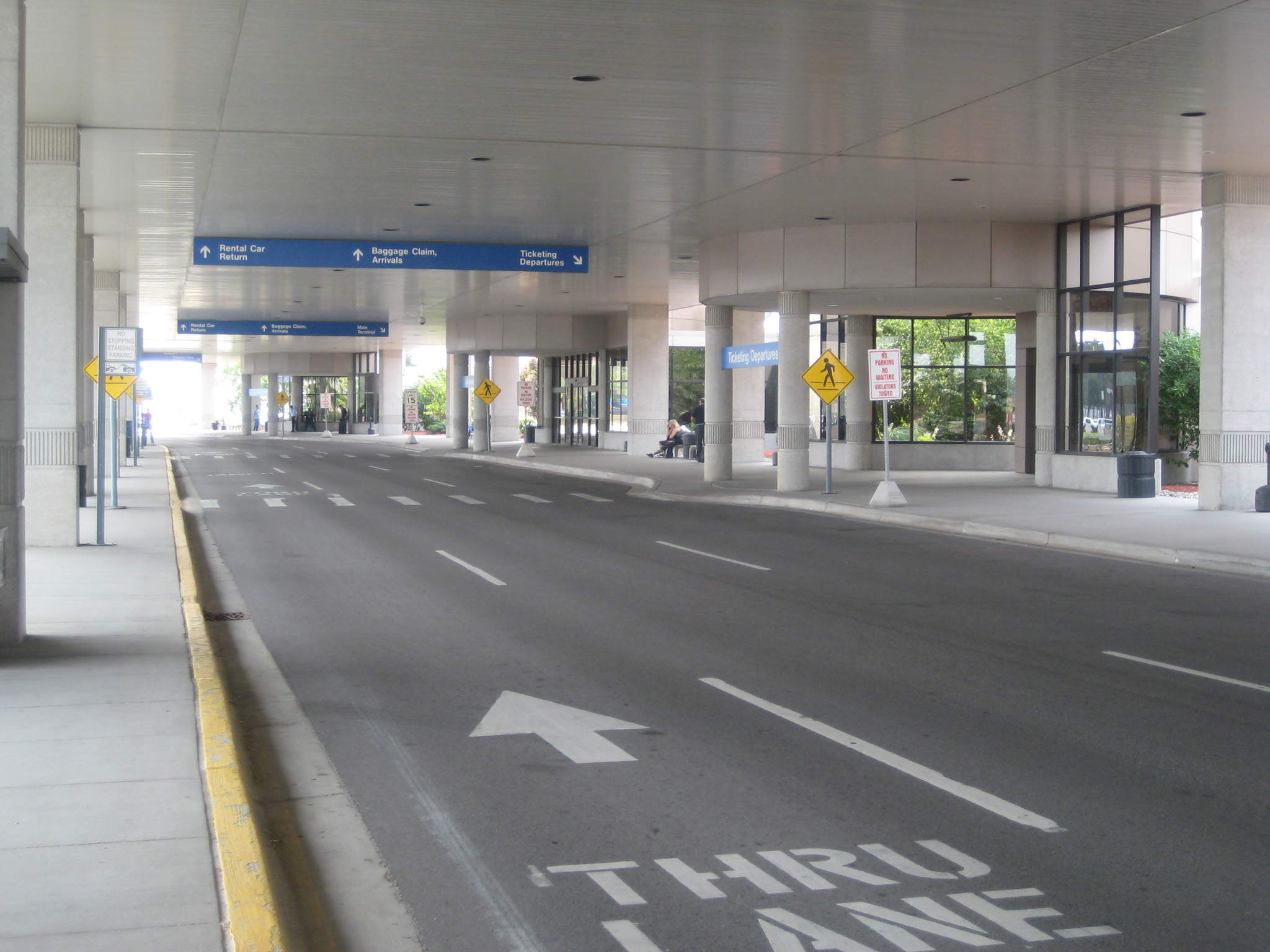 Capital Region International Airport (LAN), Lansing, Michigan. Arrival and departure drive along front of terminal.